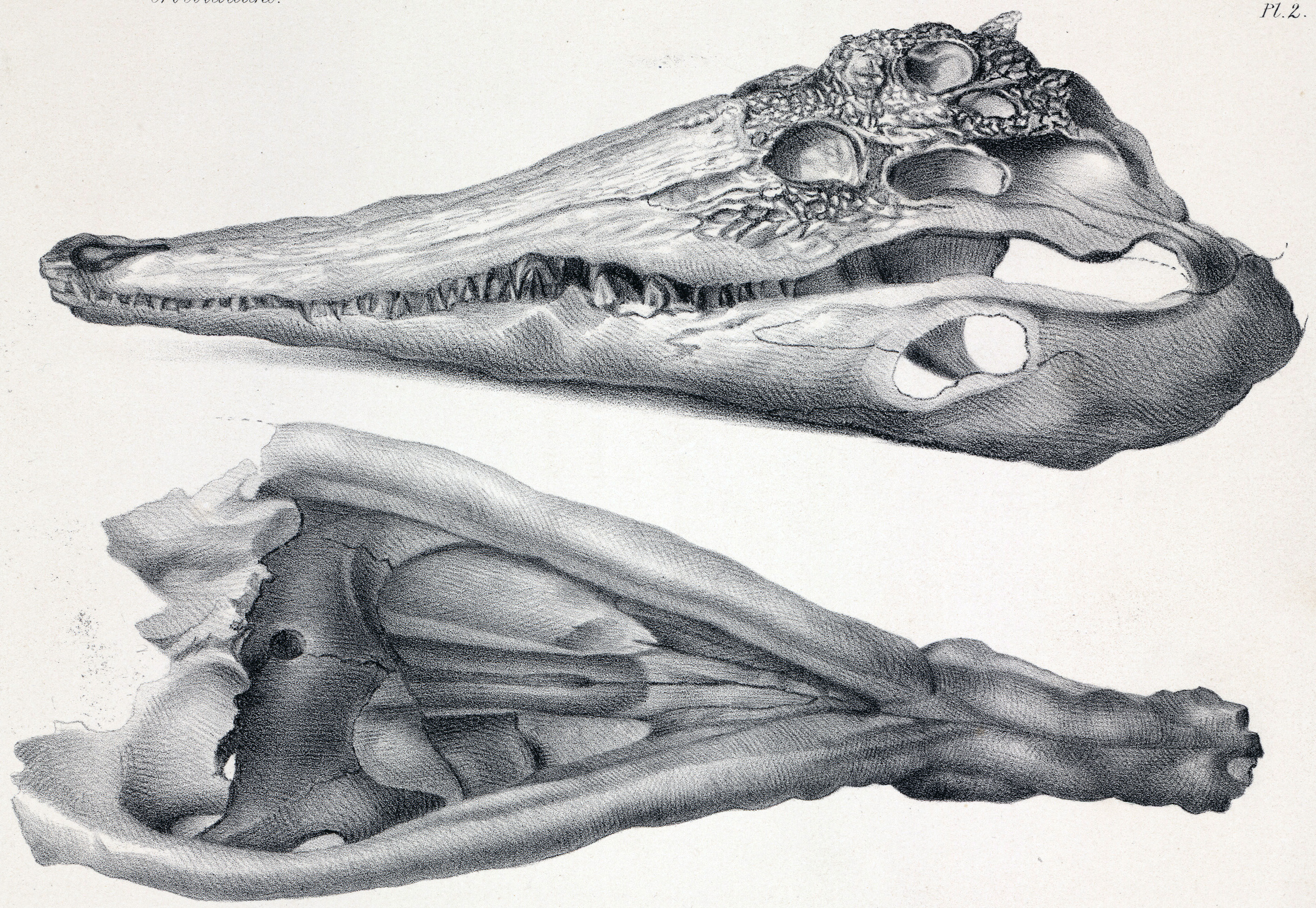 Kentisuchus (Crocodilus) spenceri skull Fig. 1. Oblique side view of the skull. Fig. 2. Under view of the skull.